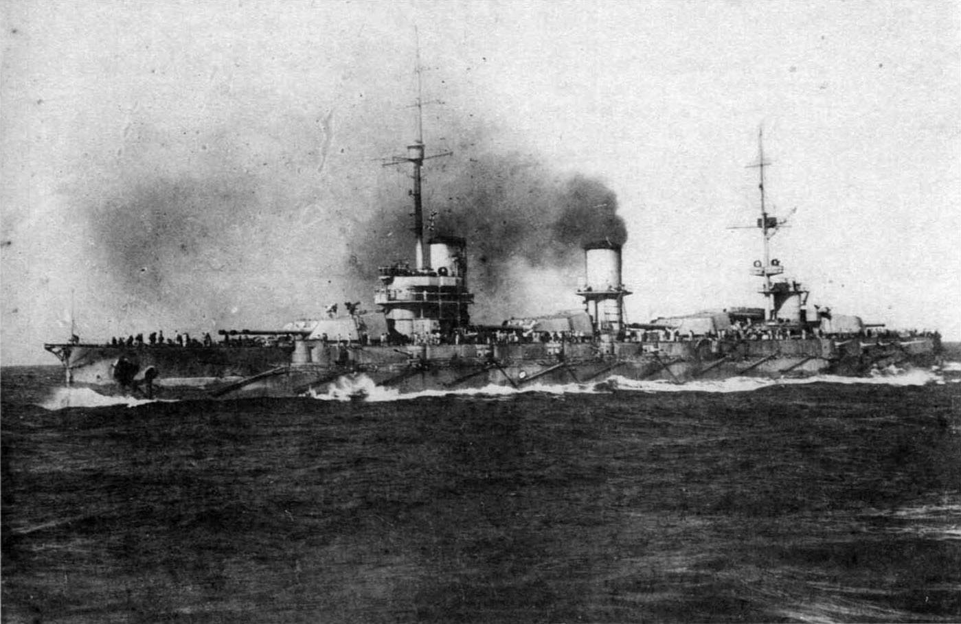 Battleship Volya, 1917.